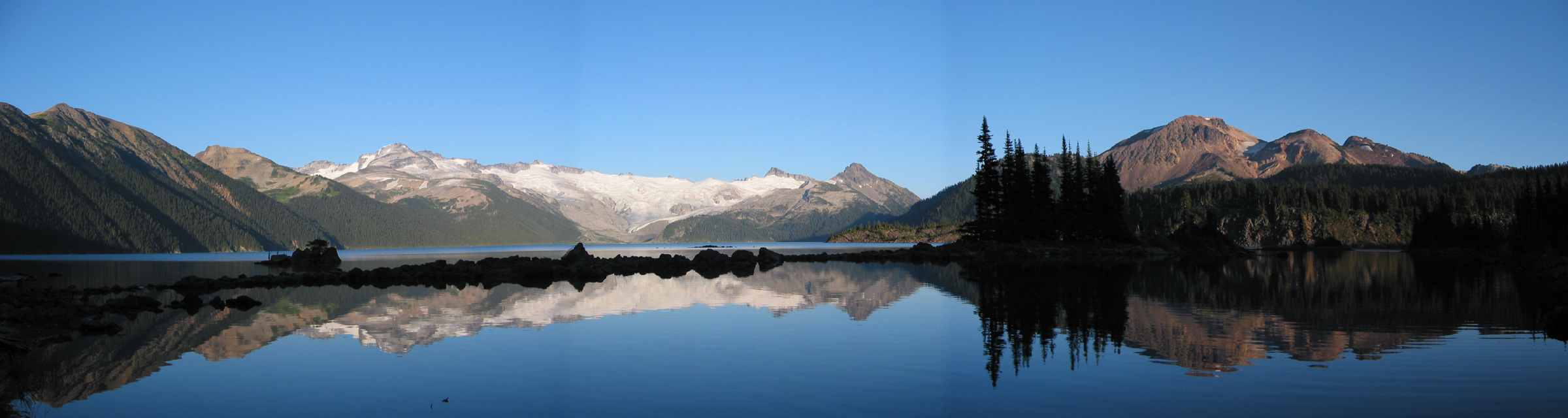 Panorama of Garibaldi Lake, with the Sphinx Glacier in the distance and the volcanoes of Mount Price and Clinker Peak at right. The Battleship Islands are in the foreground. Digitally composited from three photos.